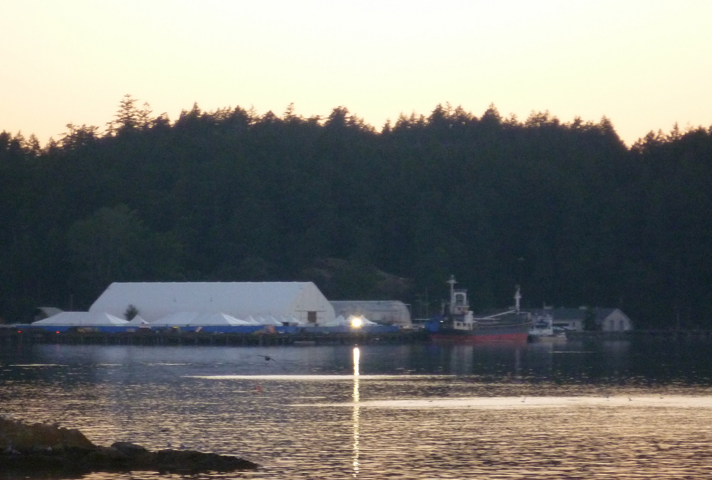 The MV Sun Sea, a ship carrying Tamil refugees, seen from the shore of the Esquimalt First Nation Reserve